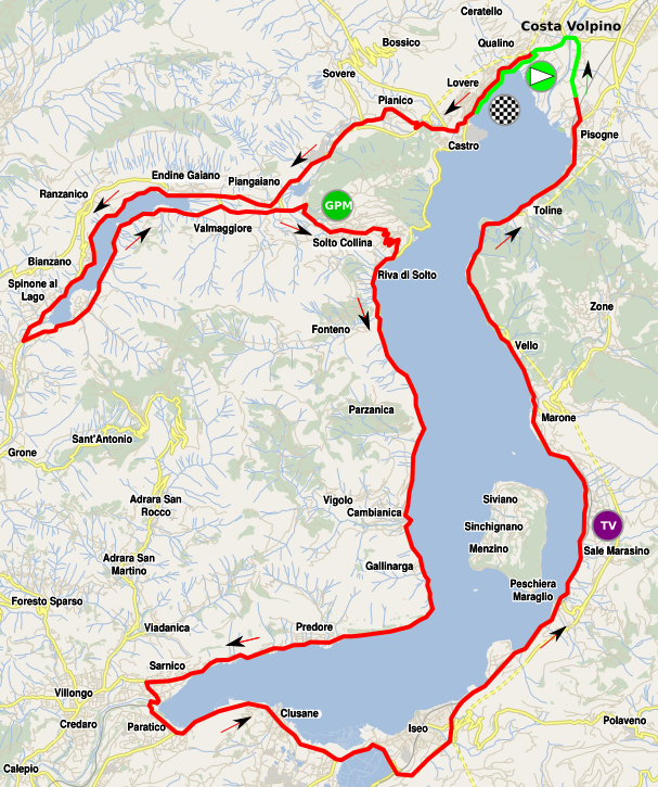 Map of the stage 4 of the Giro rosa 2016.